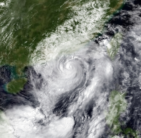 Image of Typhoon Maggie of the 1999 Pacific typhoon season on 6 June 1999